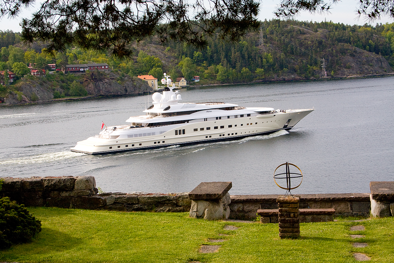 The yacht Pelorus at inlet to Stockholm